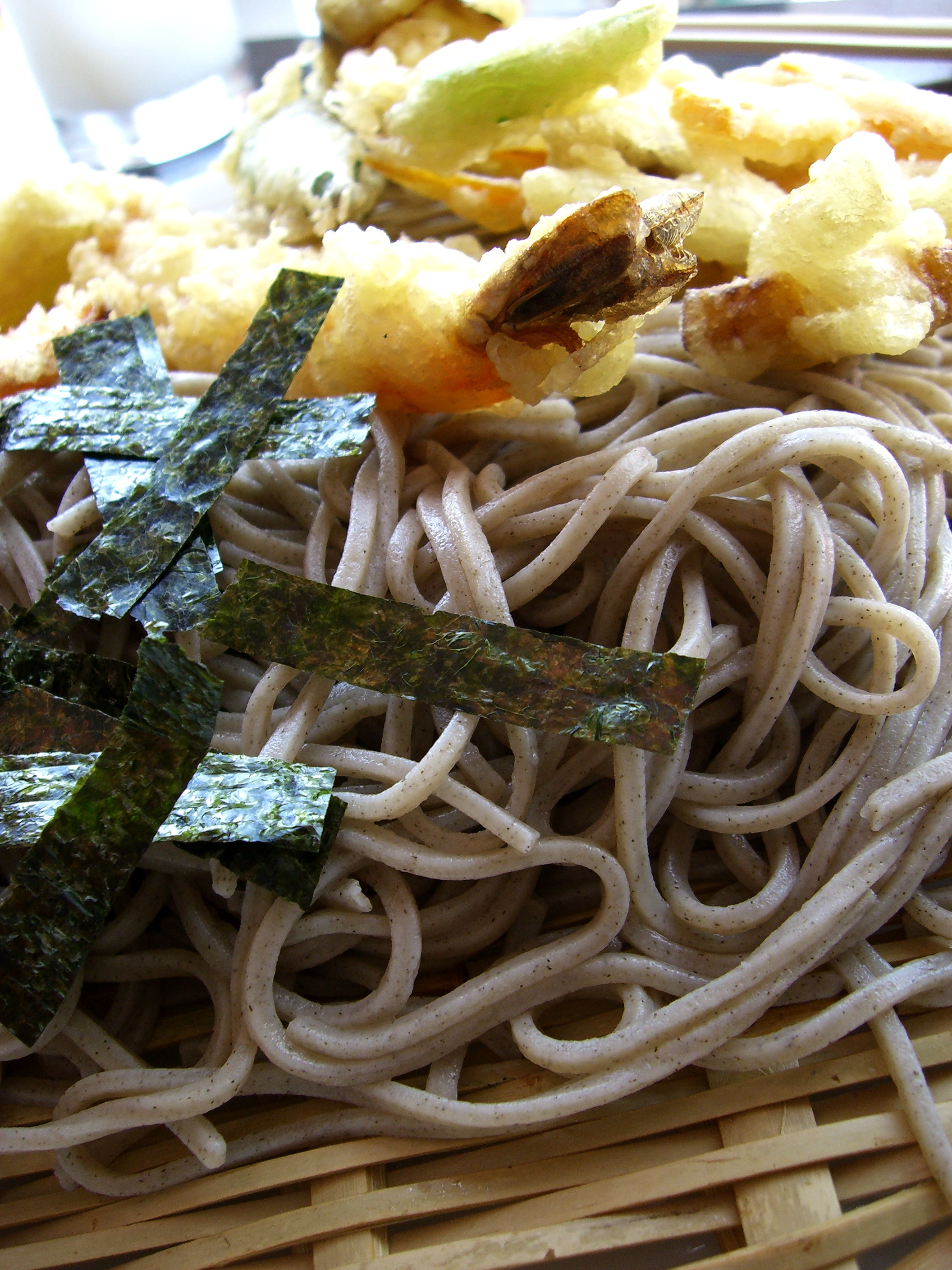 Cold soba noodles with tempura at E-Kagen, Brighton, England.